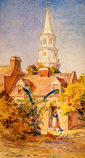 "The Rector's Kitchen and View of St. Michael's," watercolor on board, by Charleston artist Alice Ravenel Huger Smith